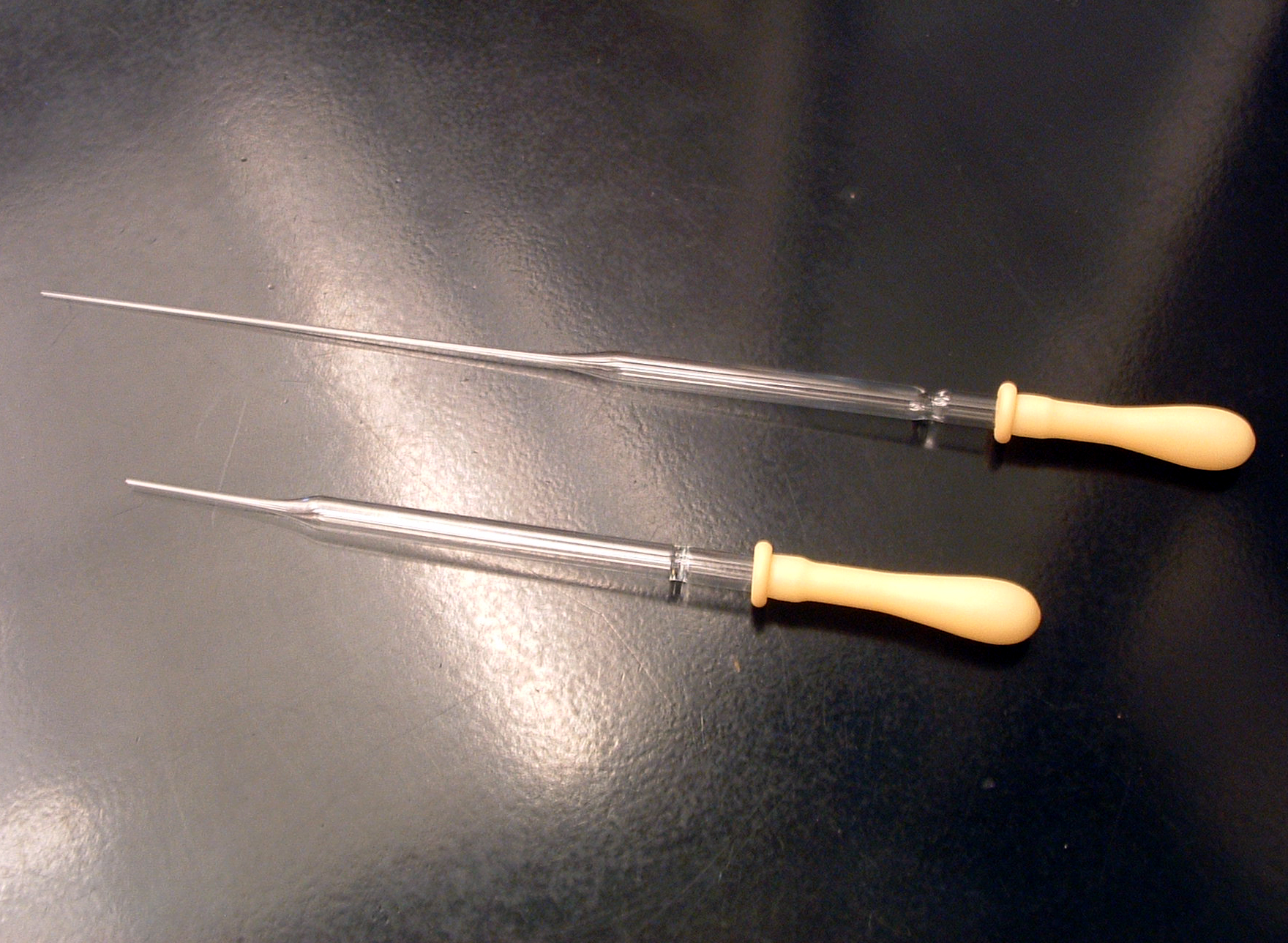 Examples of glass Pasteur pipettes in common 9" and 5.75" versions, shown with bulbs attached.